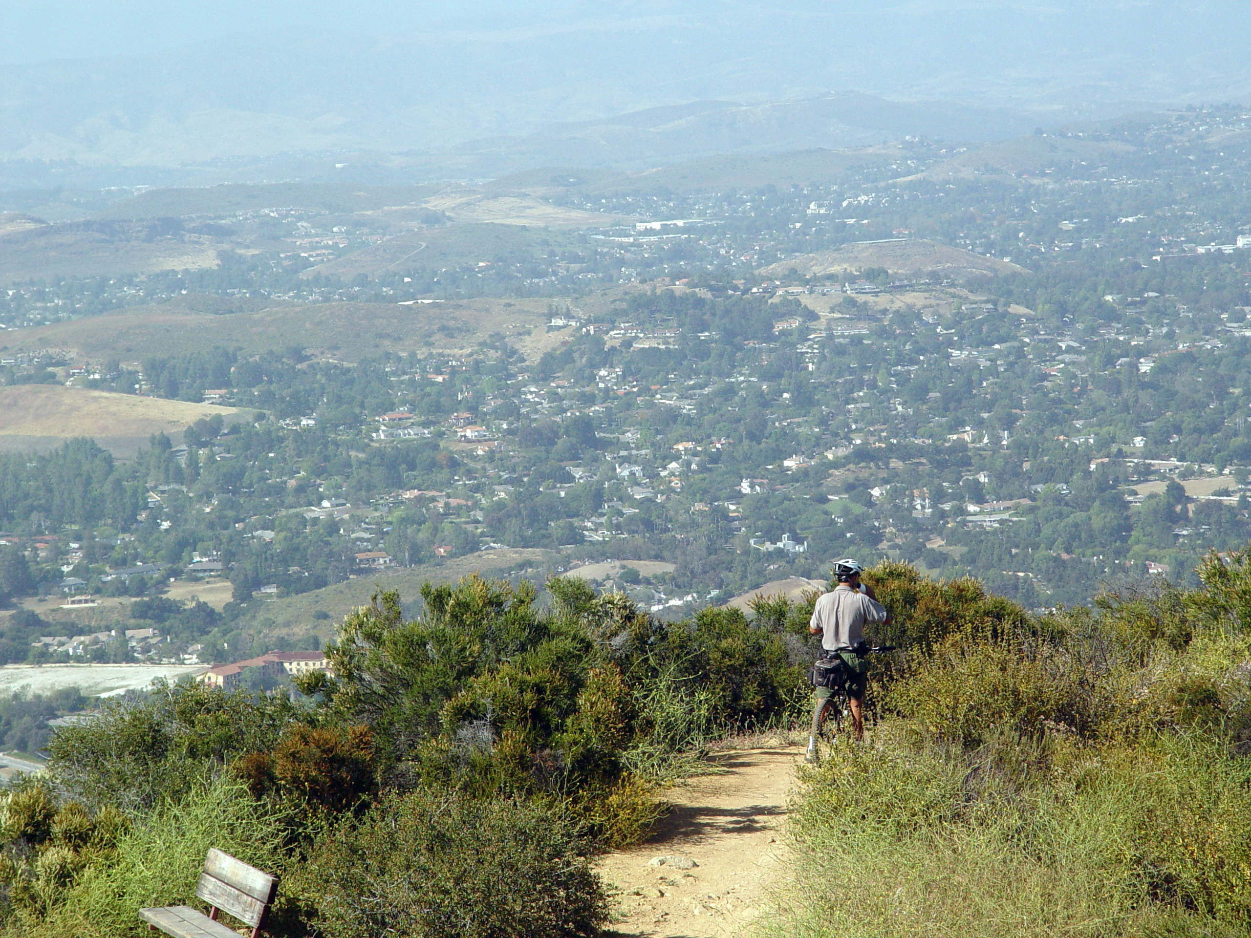 A view of Newbury Park, California, as seen from the top of Angel Vista.